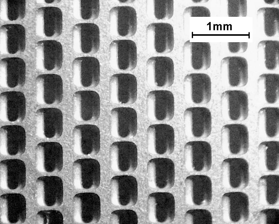 shadow mask of a color-TV picture tube, view from the picture side